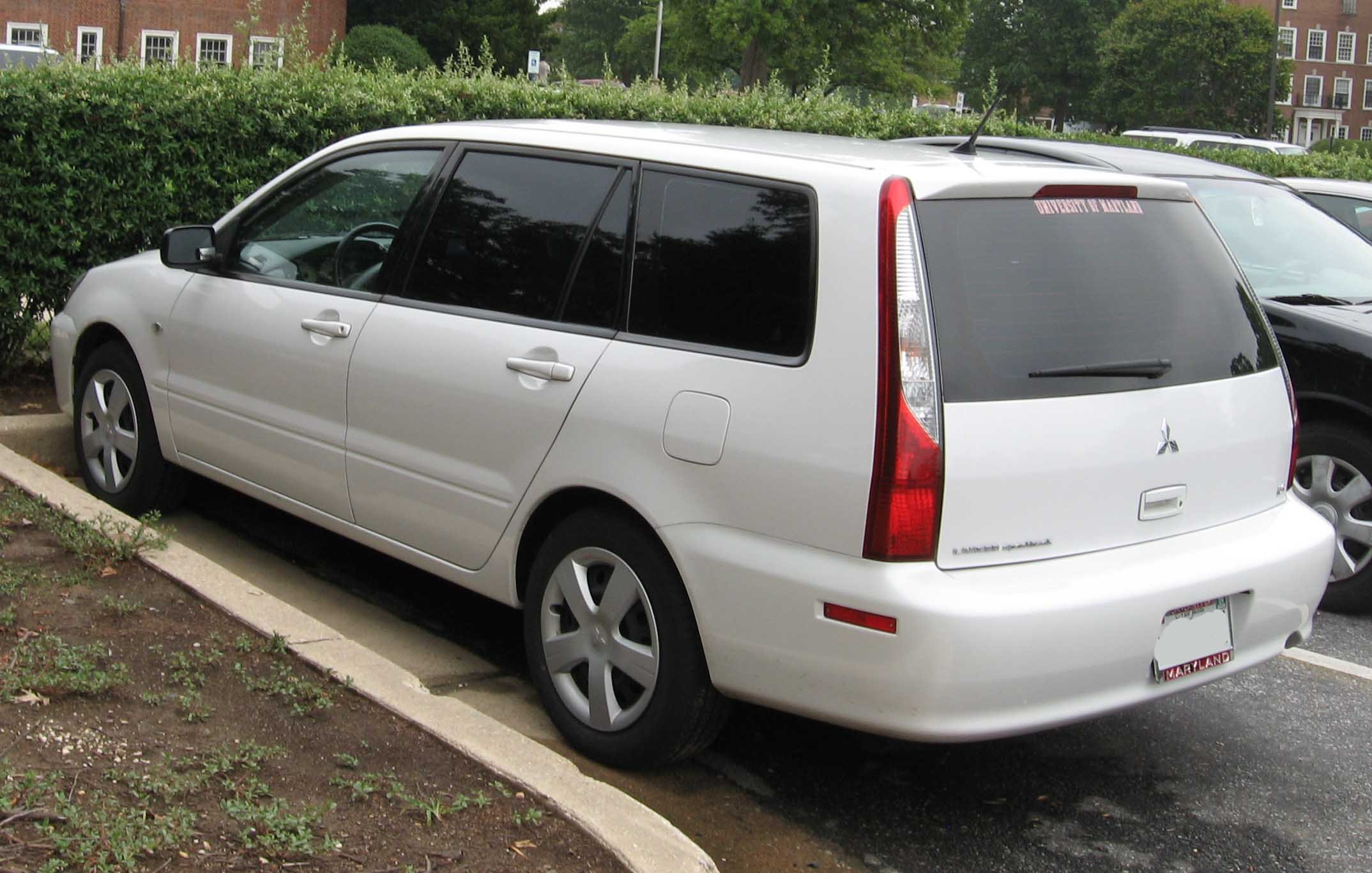 2004-2005 Mitsubishi Lancer photographed in USA.